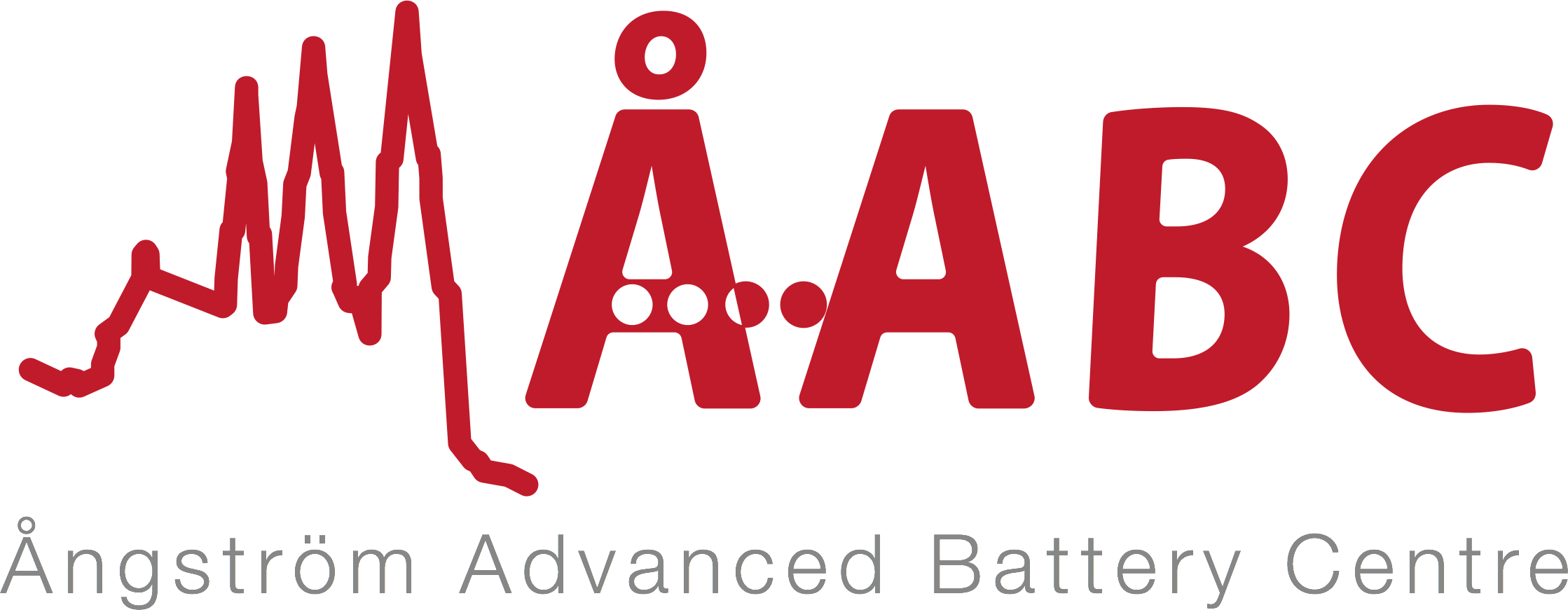 Ångström Advanced Battery Centre logo